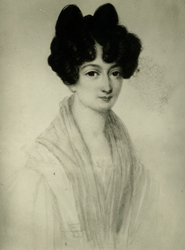 Henriette d'Oultremont